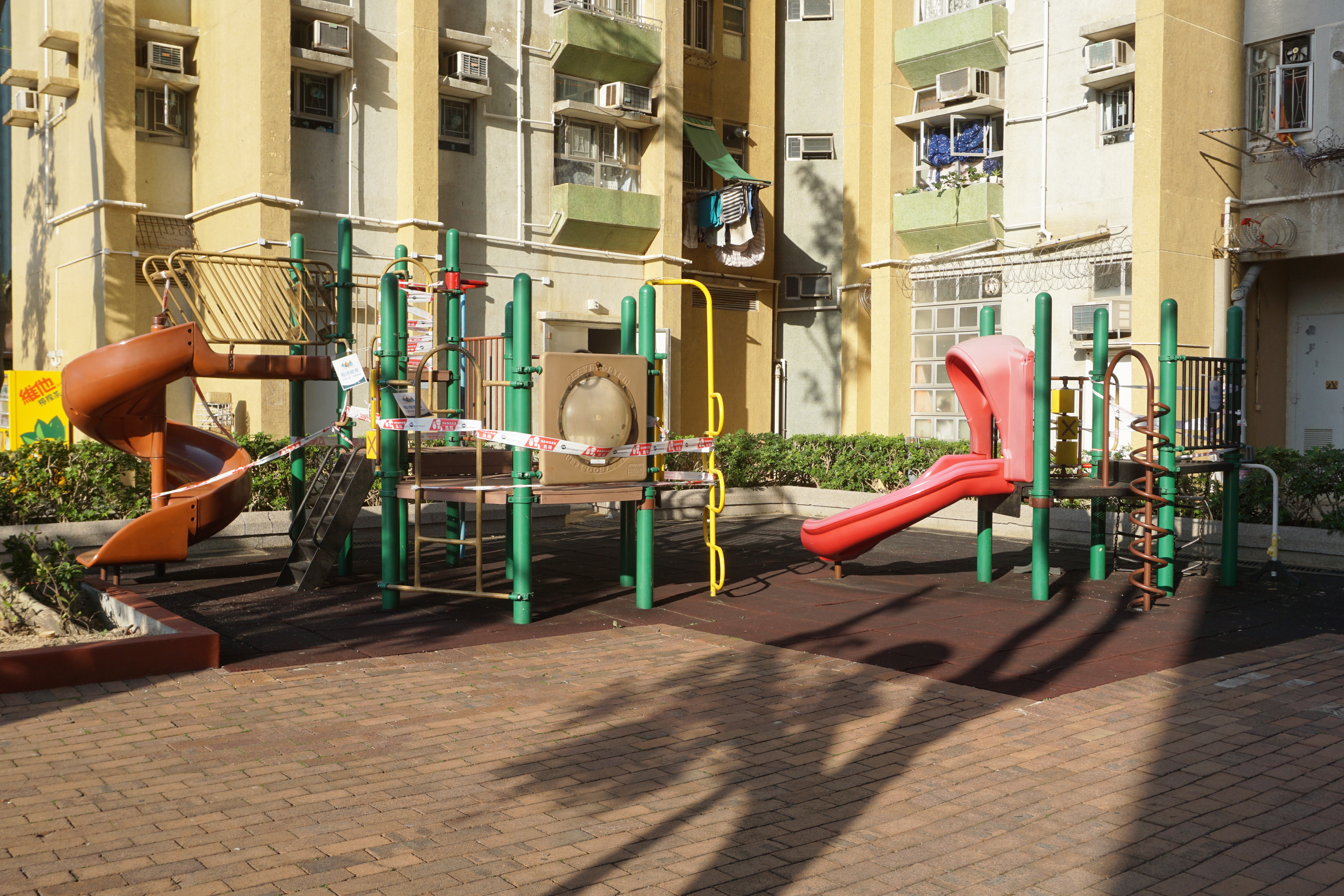 Kam Ying Court in Ma On Shan, Hong Kong.